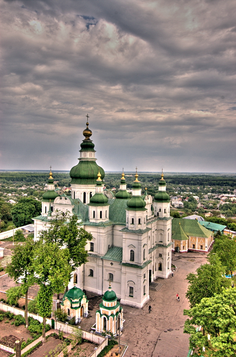 Chernigov. Holy Trinity Cathedral (1695)